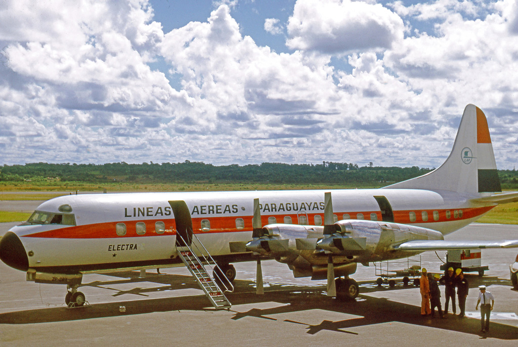 Lockheed L-188A Electra II ZP-CBX of Lineas Aereas Paraguayas at Asuncion in 1975